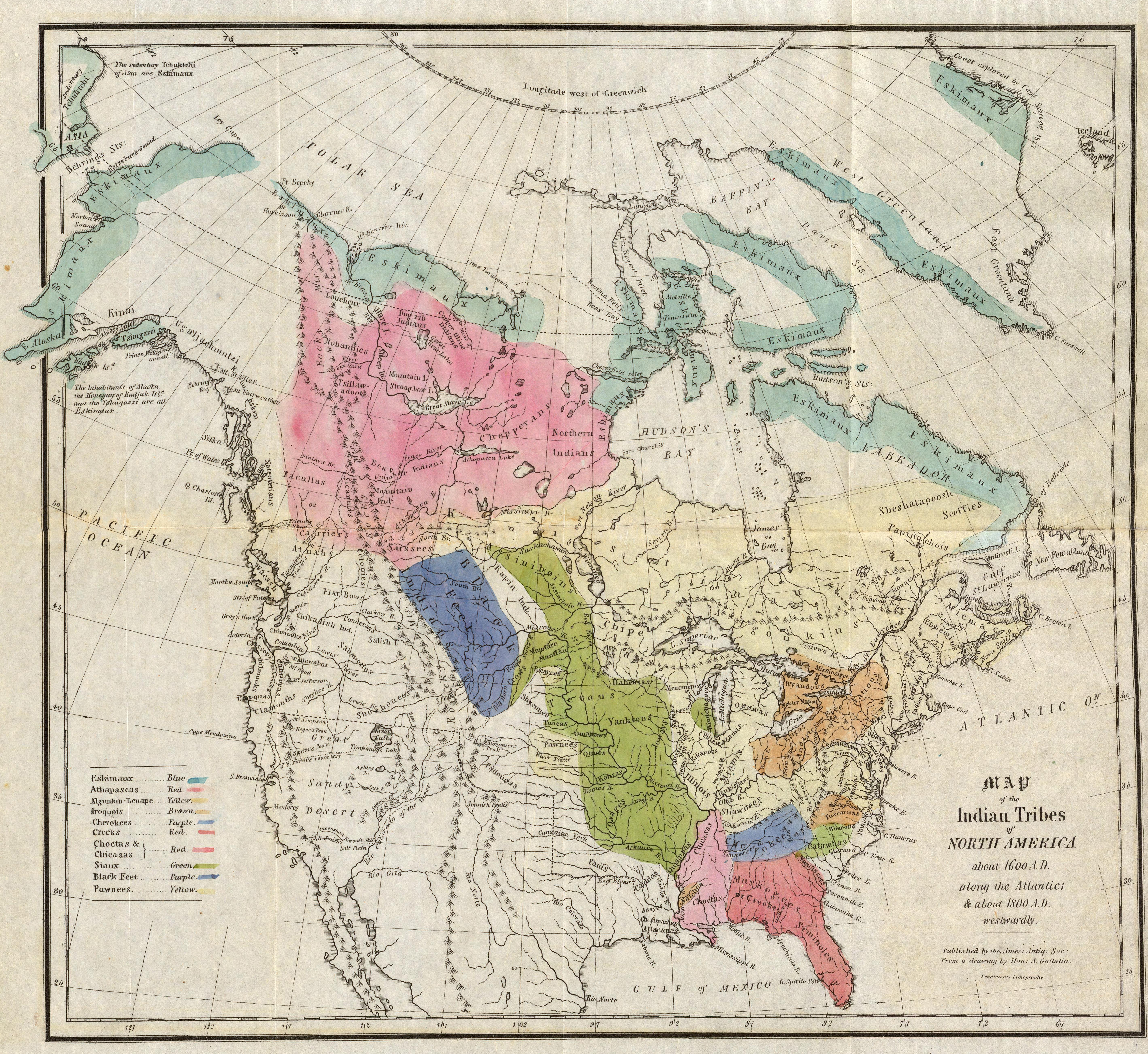 First Nation Control over North America in the 1600s. Map in color by tribe. Map extends from Alaska and Baffin's Bay in the north to Florida in the south. Accompanied by a color-coded key. A Synopsis of the Indian Tribes within the United States East of the Rocky Mountains, and in the British and Russian Possessions in North America. By the Hon. Albert Gallatin. (In: Archaeologia Americana. Transactions and Collections of the American Antiquarian Society. Vol II. Cambridge: Printed For The Society, At The University Press. 1836). The map, in addition to its abundant information regarding the Indian Tribes, shows J. Smith's route of 1827 across the Great Basin, one of the earliest American maps to do so. See the later version of this map published in 1848. Scale 1:18,000,000 Reference Wheat 417; Howes G30.